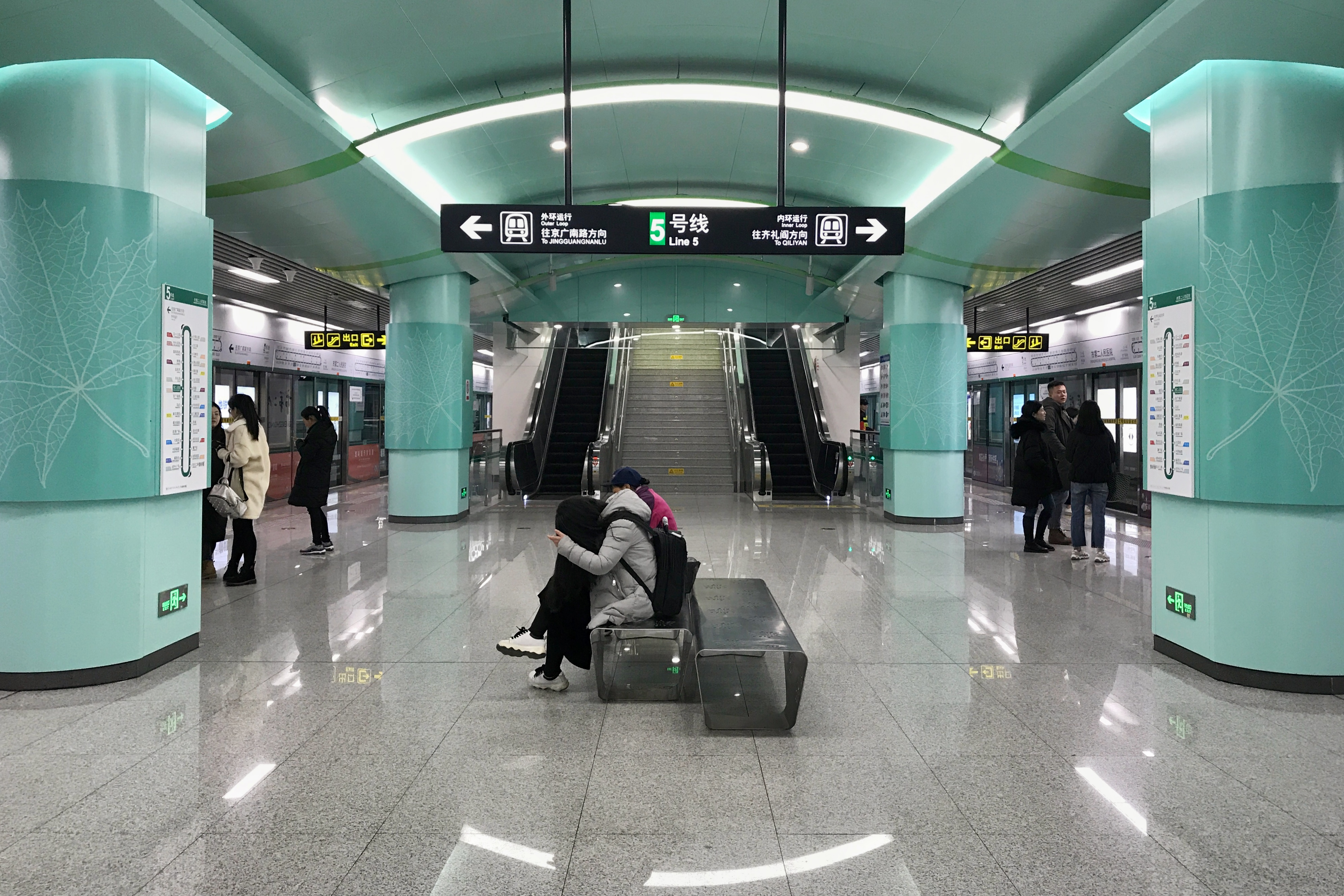 Platform of Zhengzhou No. 2 People's Hospital Station